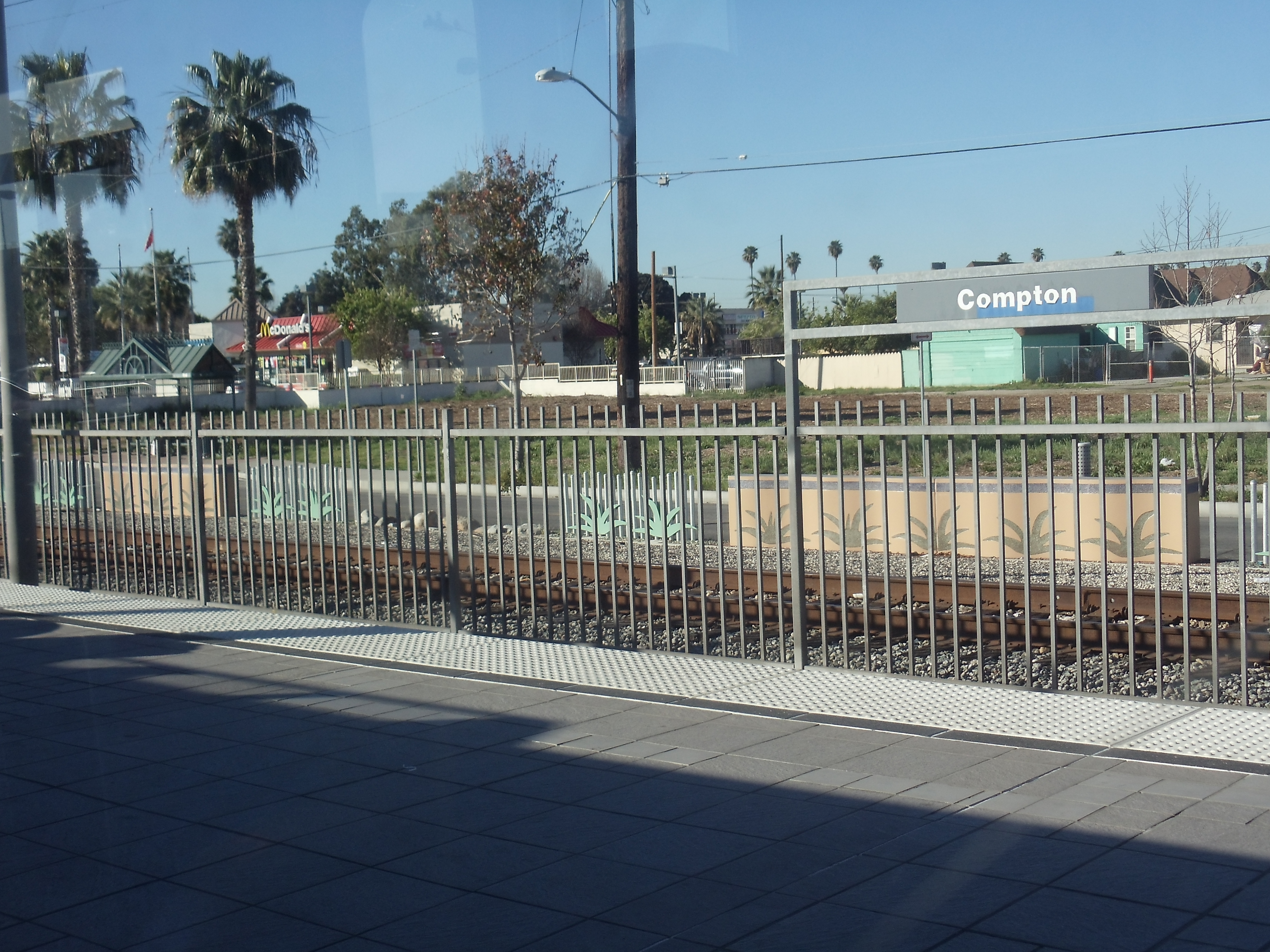 Compton Blue Line station platform.